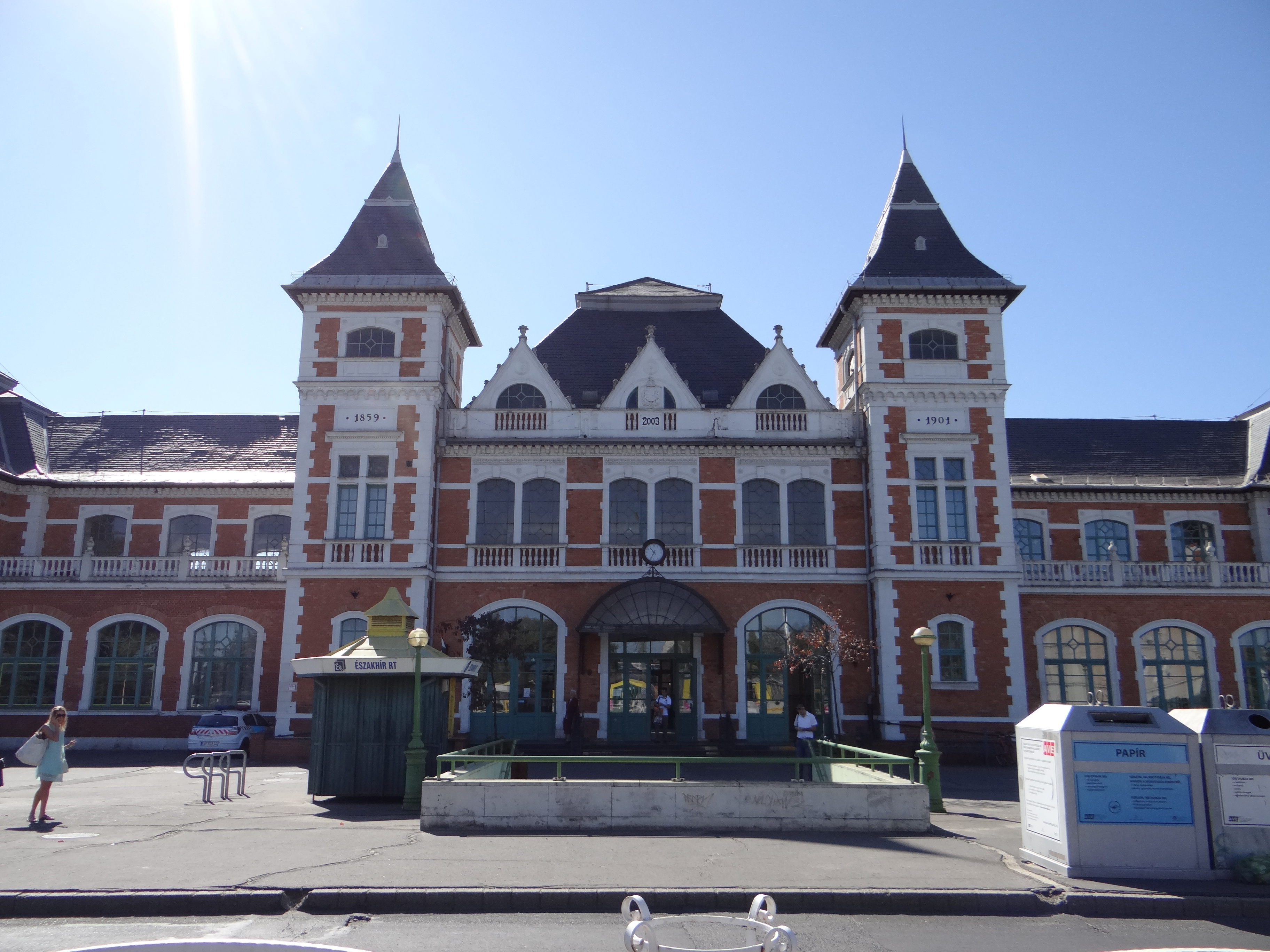 Tiszai railway station, Miskolc, Hungary This is a photo of a monument in Hungary. Identifier: 2951